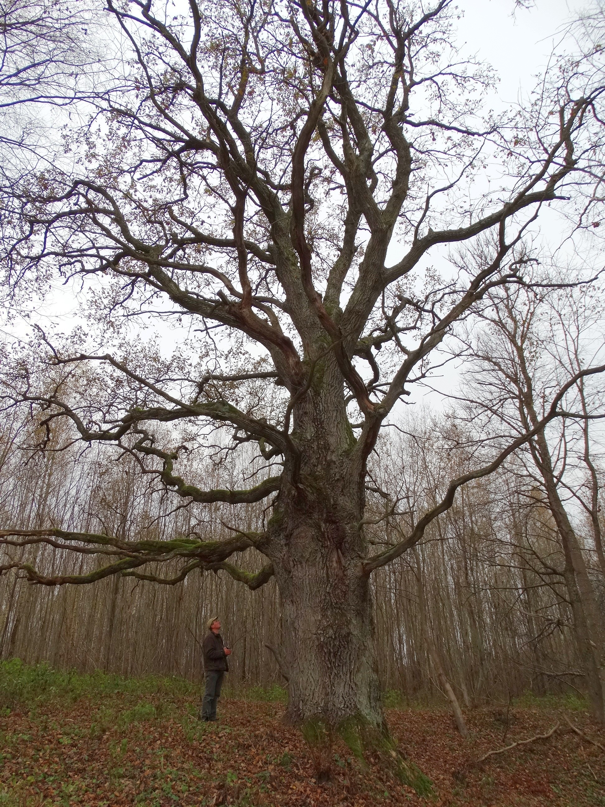 Alkų oak tree, Elektrėnai Municipality, Lithuania